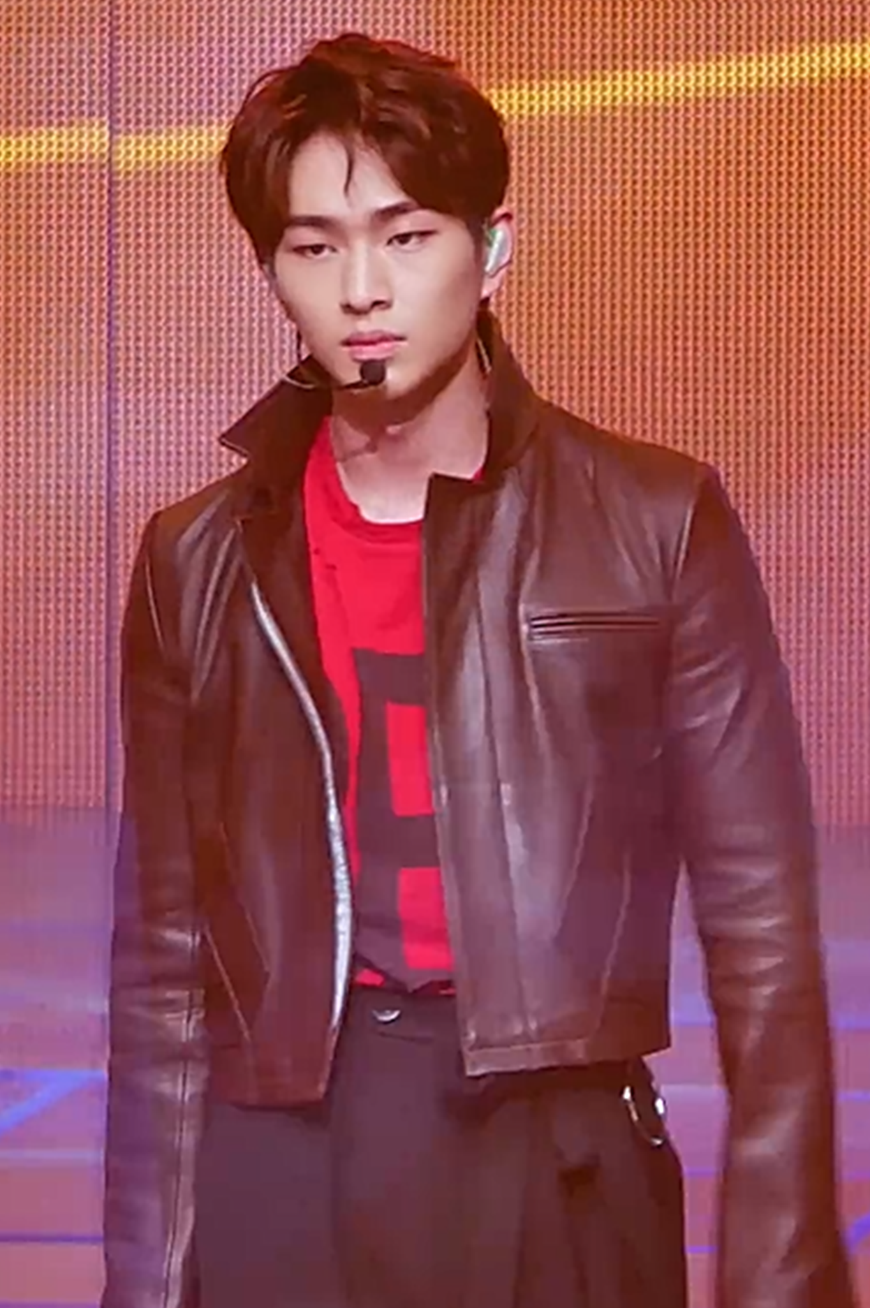 Onew performing "RingDingDong" at MBC Gayo Daejejeon on December 31, 2016.